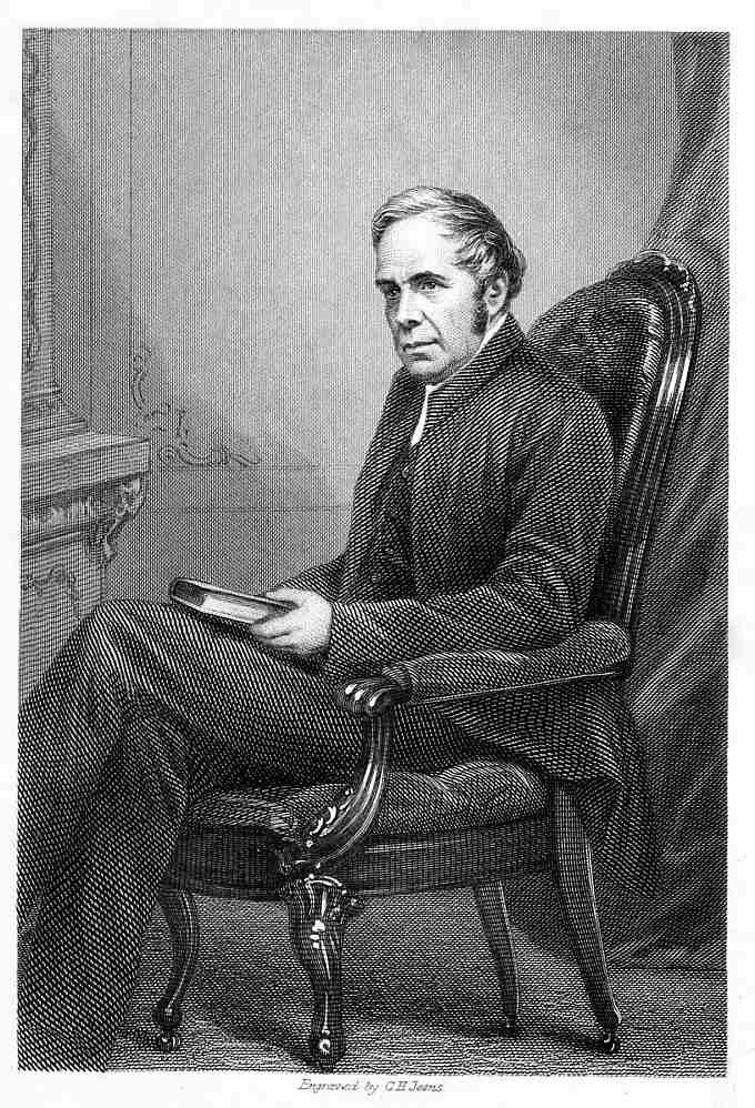 Engraving by C H Jeens, published in 1876, Memoir of Robert Charleton.